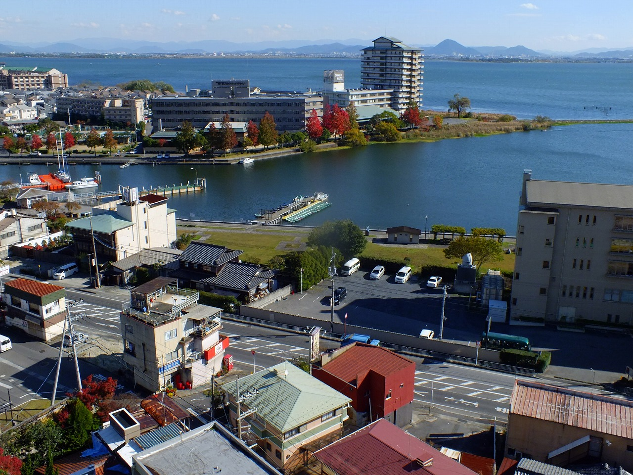 Yumotokan-Ogoto onsen Lake Biwa view 湯元舘より琵琶湖を眺望